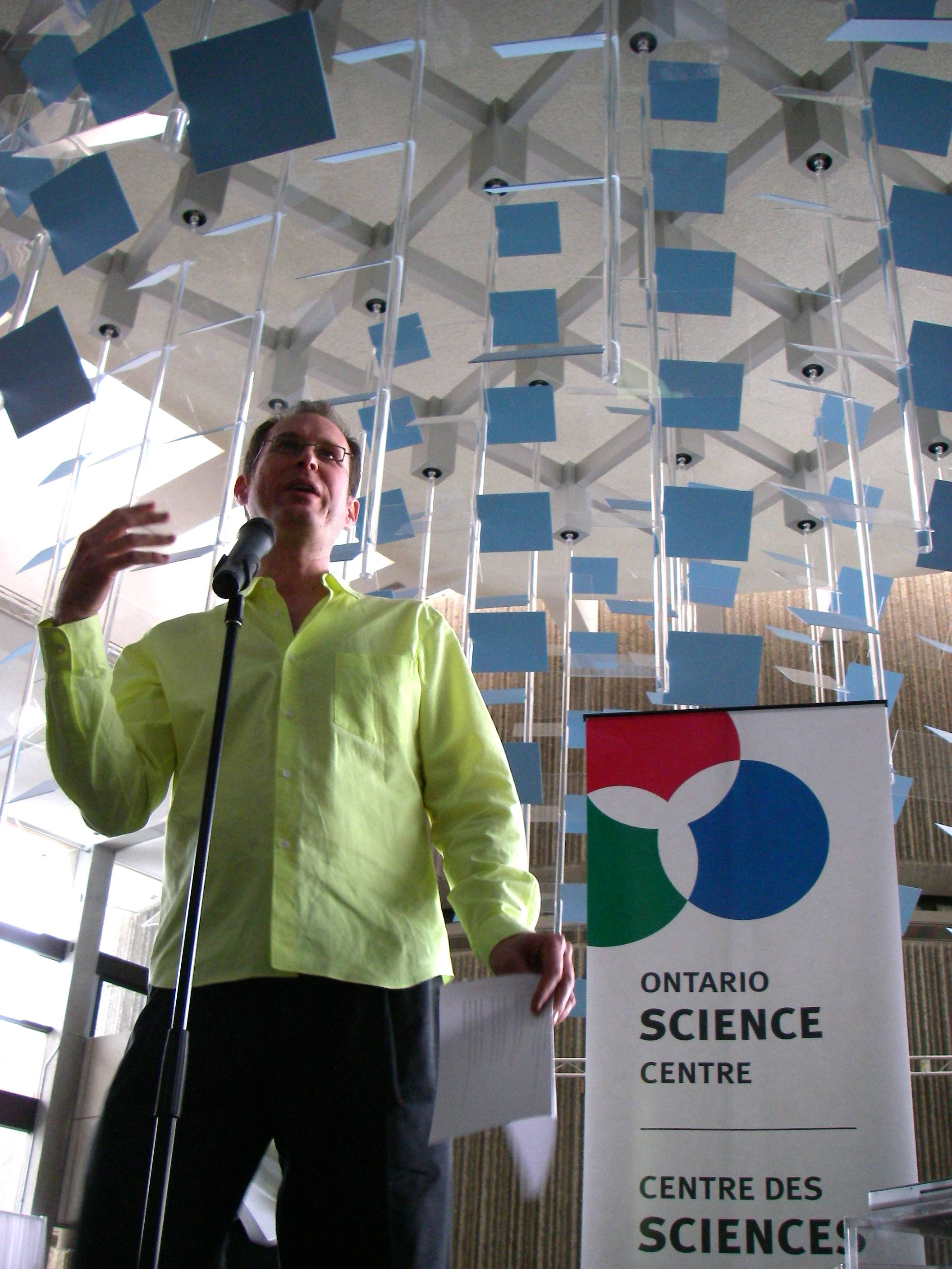 Here's a picture I took at the Ontario Science Centre's Project Art unveilling of the David Rokeby sculpture.